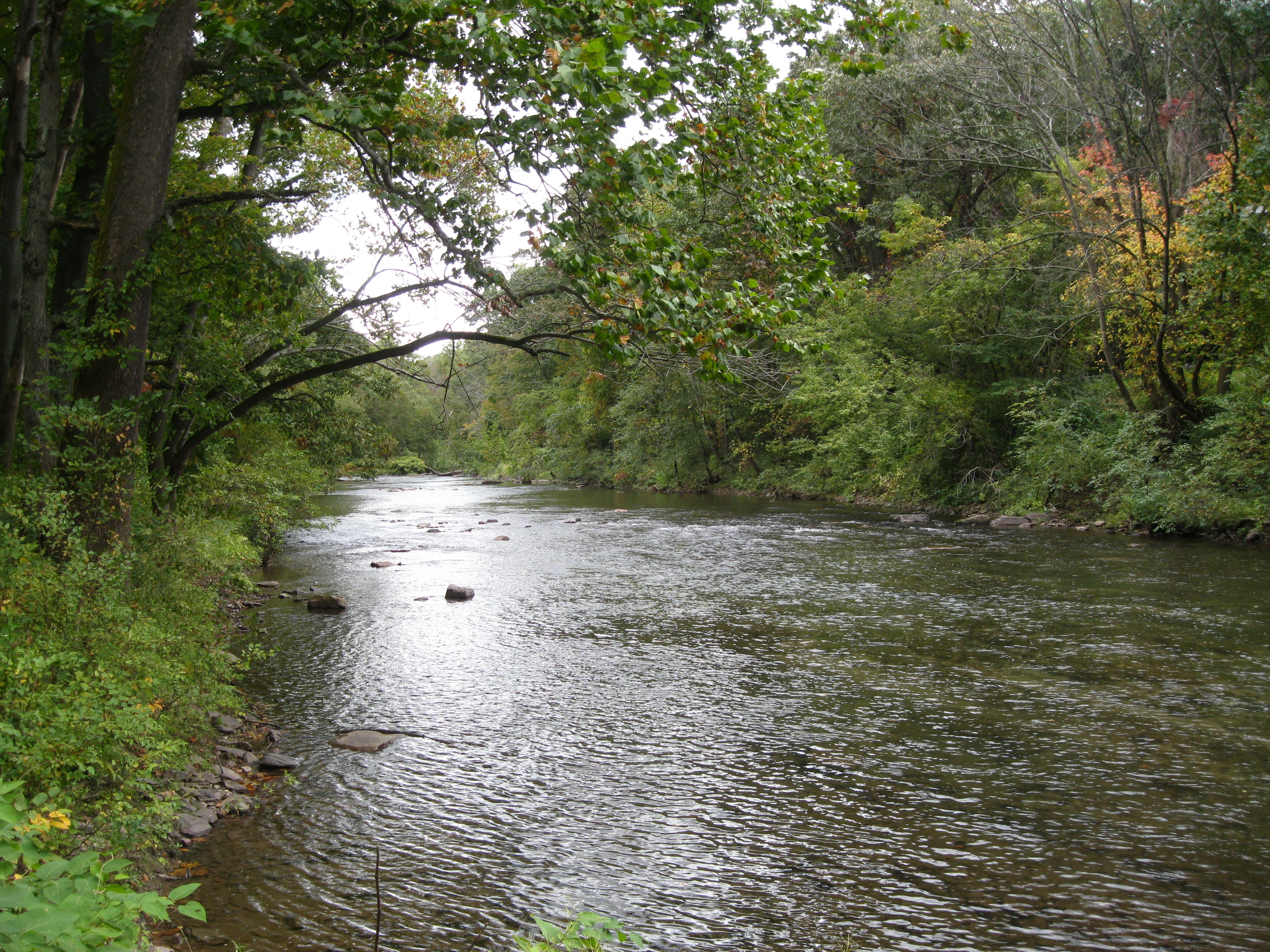 Catawissa Creek from Hollingshead Covered Bridge No. 40 in Catawissa Township in Columbia County, Pennsylvania, in the United States.